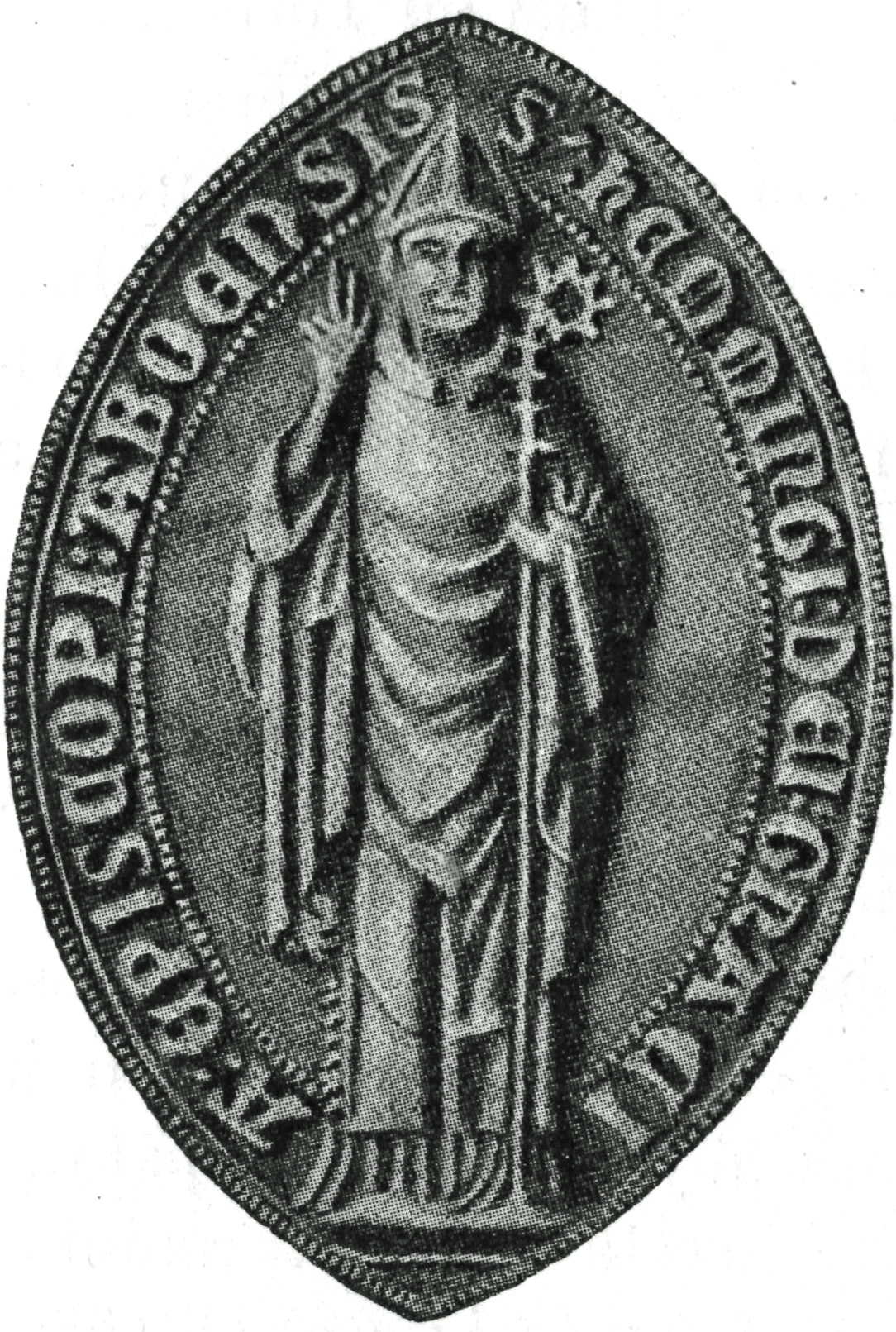 Seal of bishop Hemming of Turku.